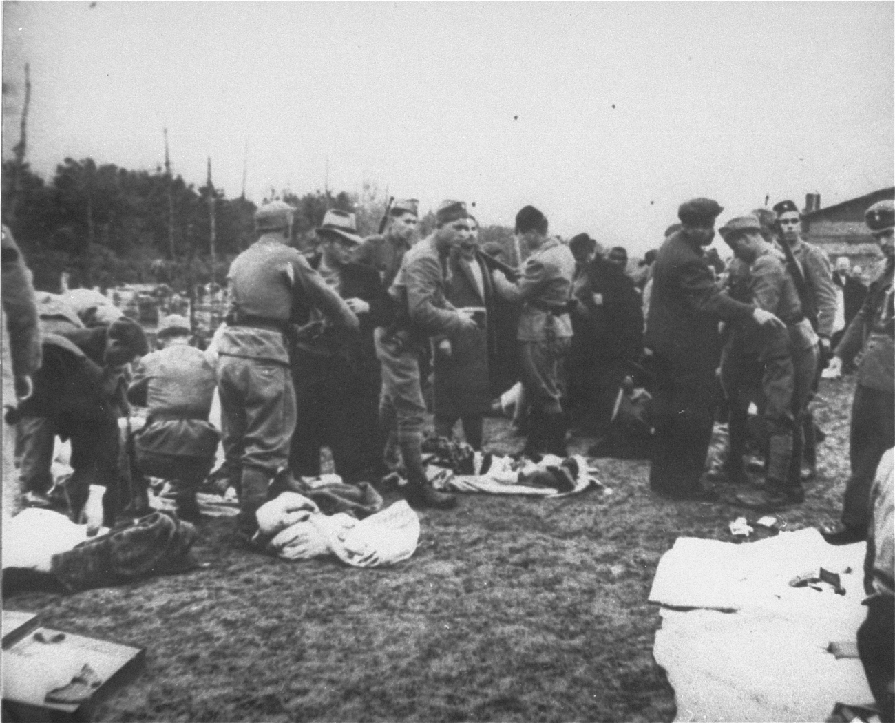 Ustasa guards in the Jasenovac concentration camp strip newly arrived prisoners of their personal possessions.